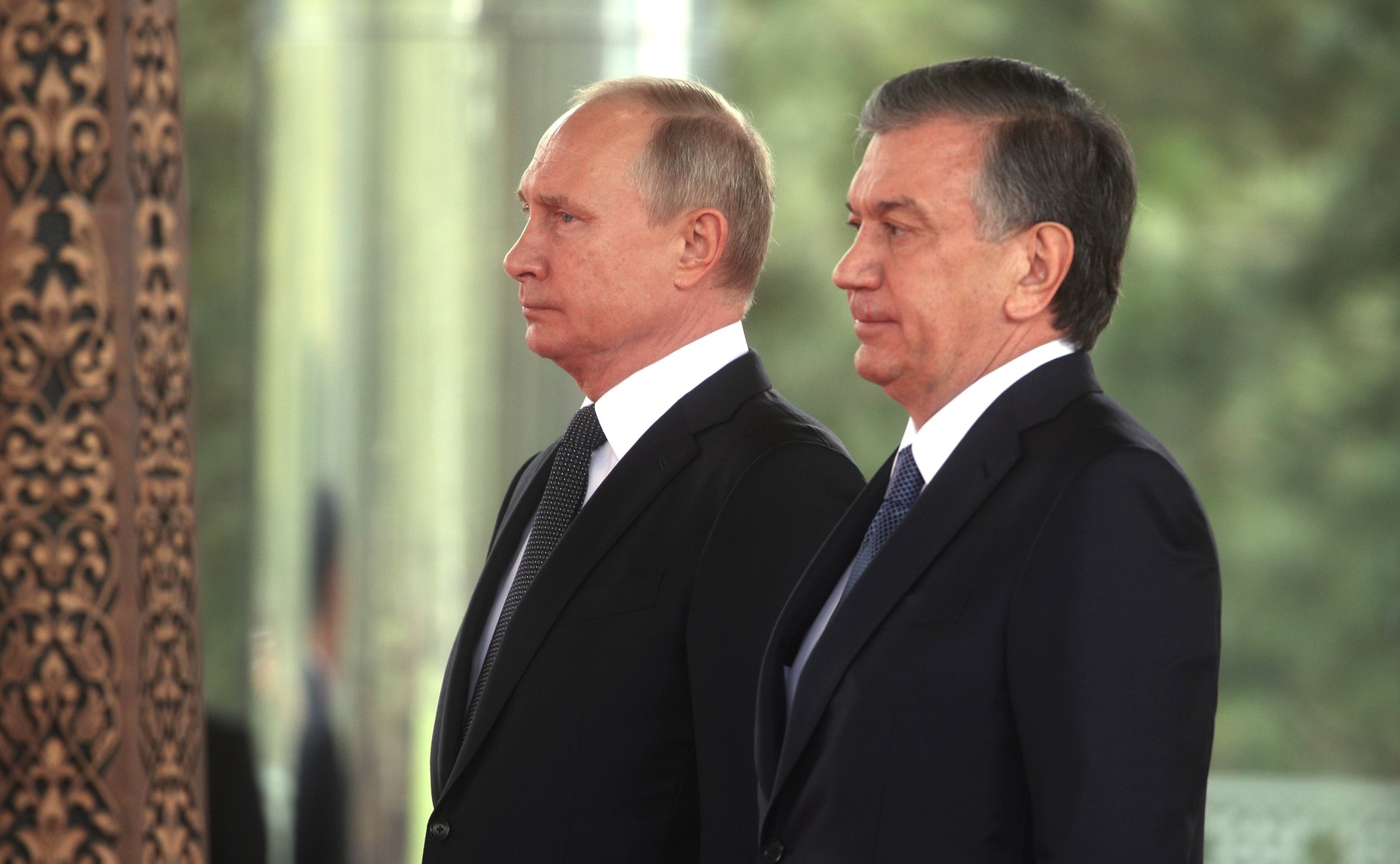 Vladimir Putin had talks with President of Uzbekistan Shavkat Mirziyoyev in Tashkent.